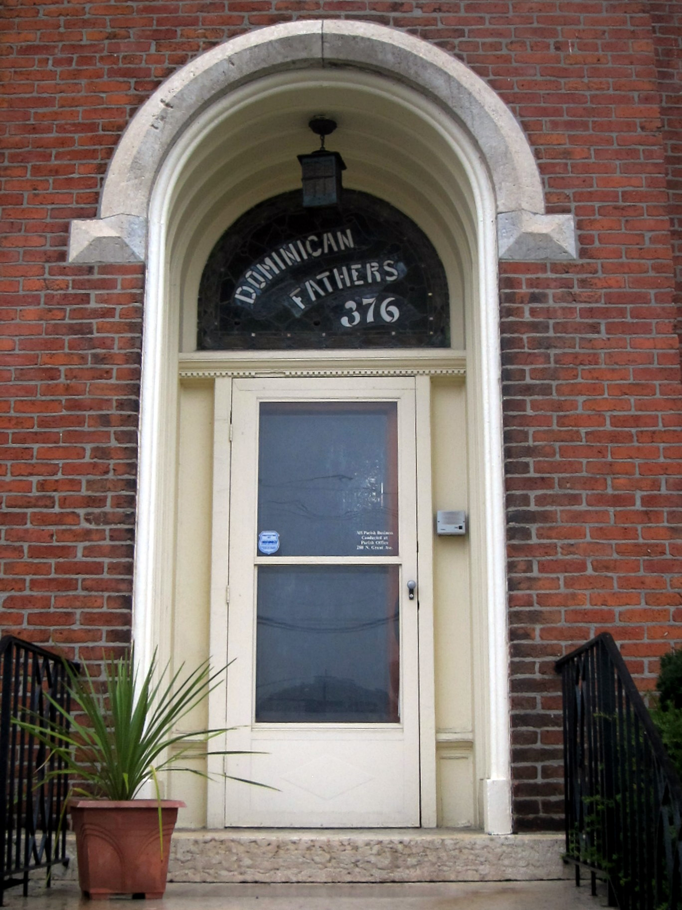 St. Patrick Church (Columbus, Ohio), Dominican Province of St. Joseph office